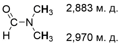 DMFA chemical shifts in CDCl3 as taken from AIST spectra database